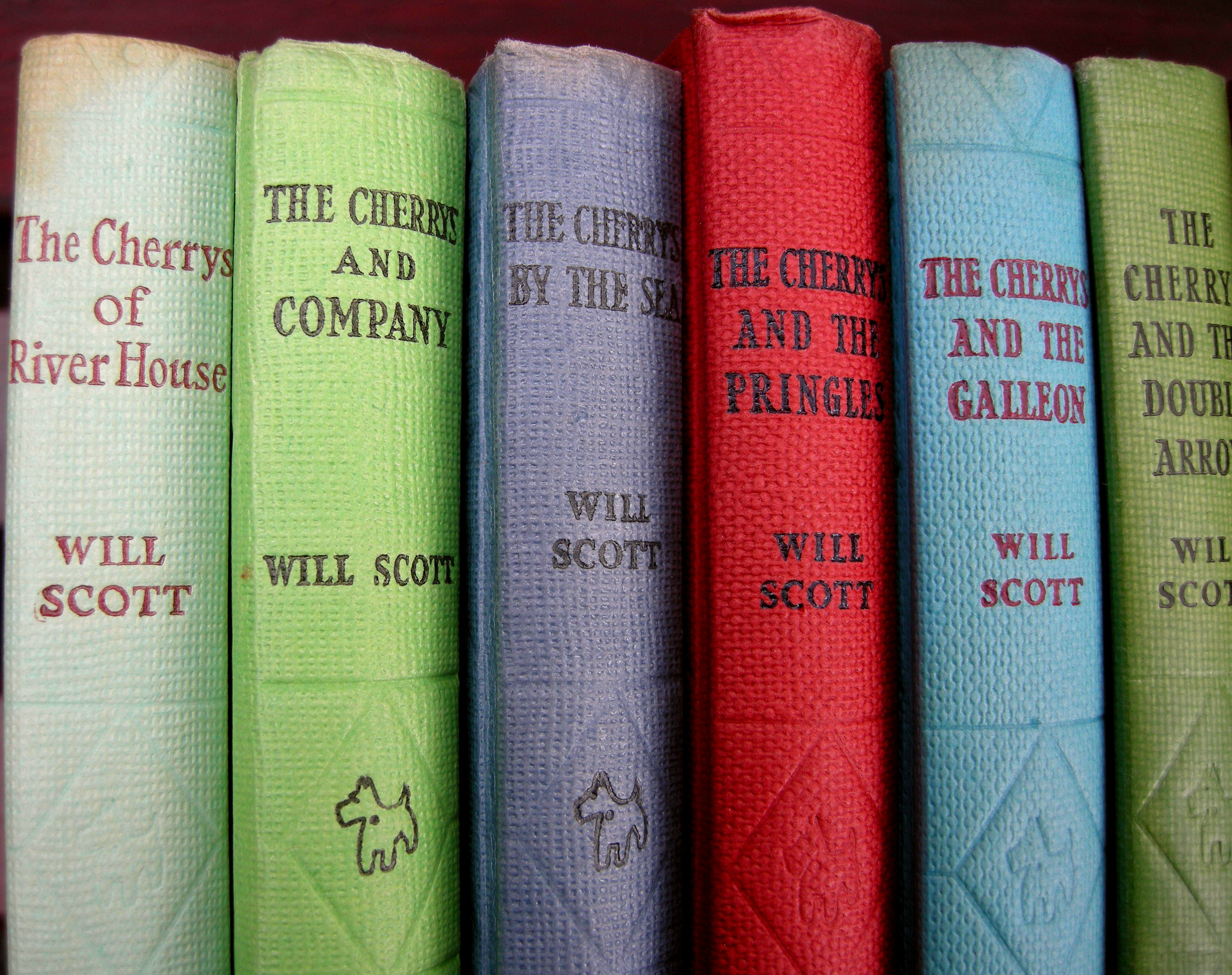 Books from The Cherrys series by Will Scott, plus one other. Published in the 1950s and 1960s.